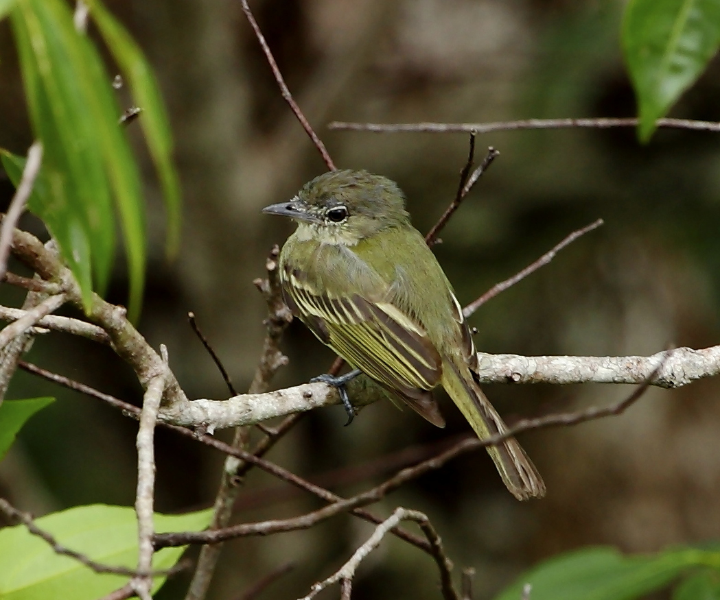 Zimmer's flatbill at Manaus - AM - Brazil